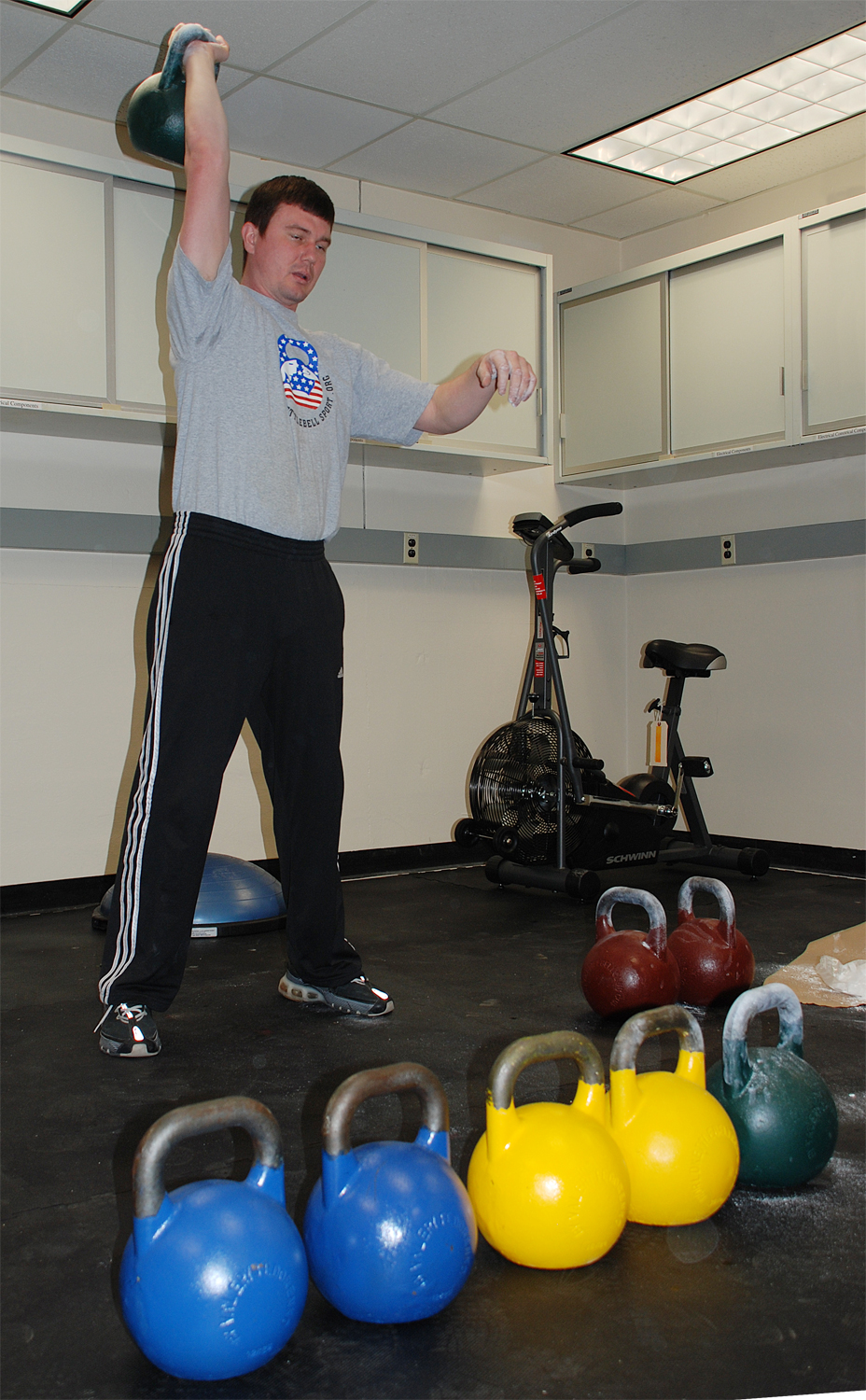 Russian kettlebell champion Valery Fedorenko demonstrates a basic kettlebell training maneuver.